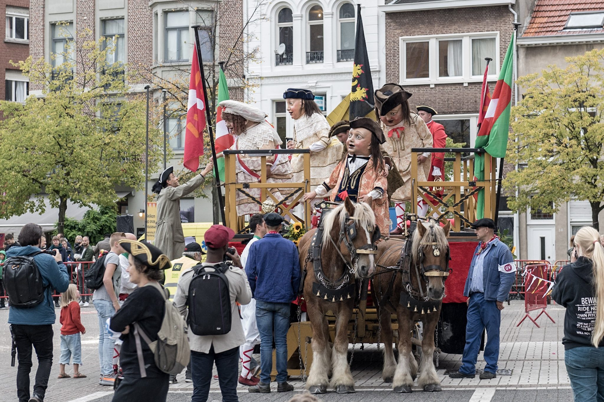 The Reuskens van Borgerhout, traditional giants since 1712